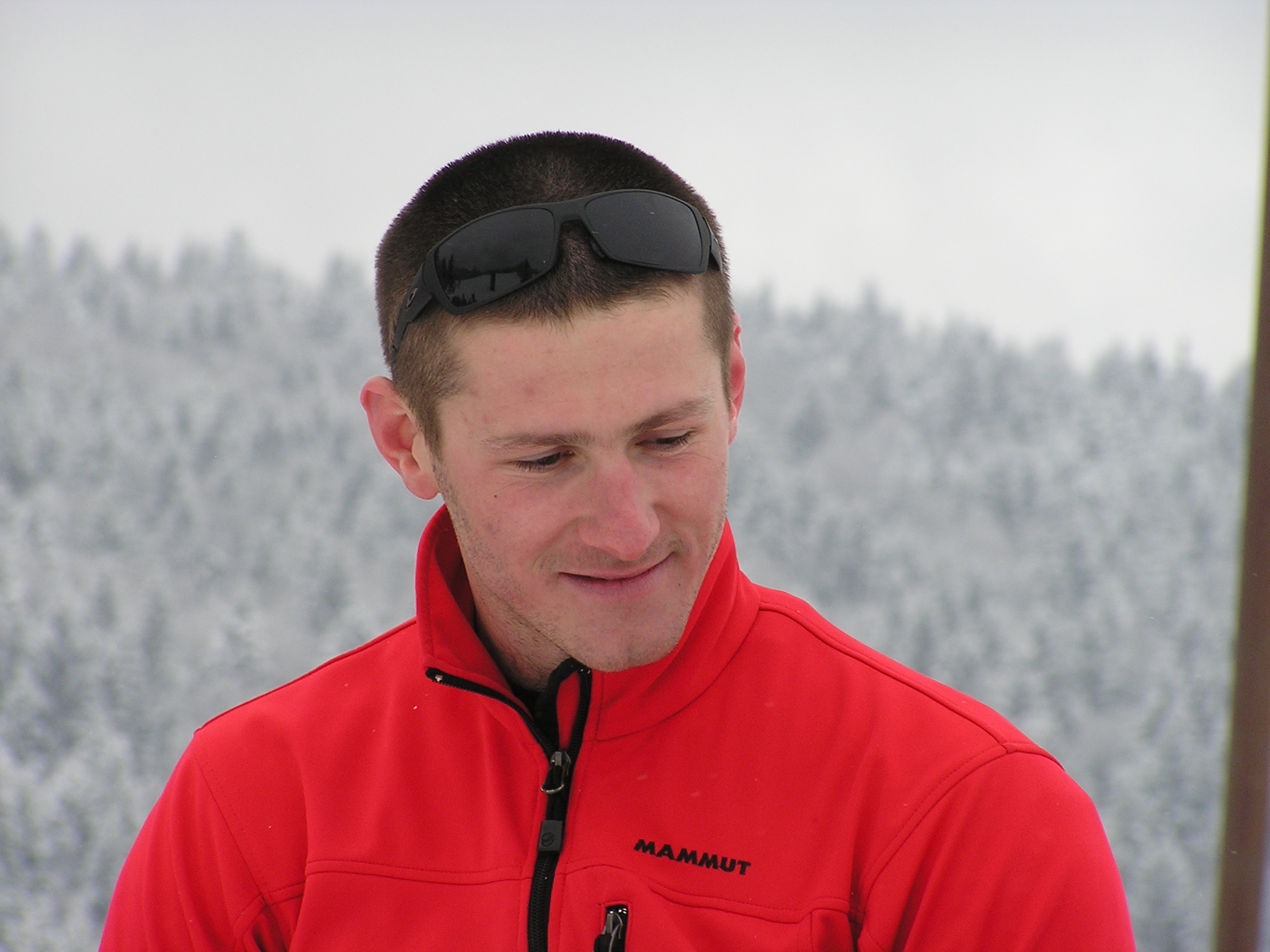 Slovak silver olympic medailst Radoslav Židek. Photo taken in Tale - snowbardcross competition 3 weeks after olympic games in Torino